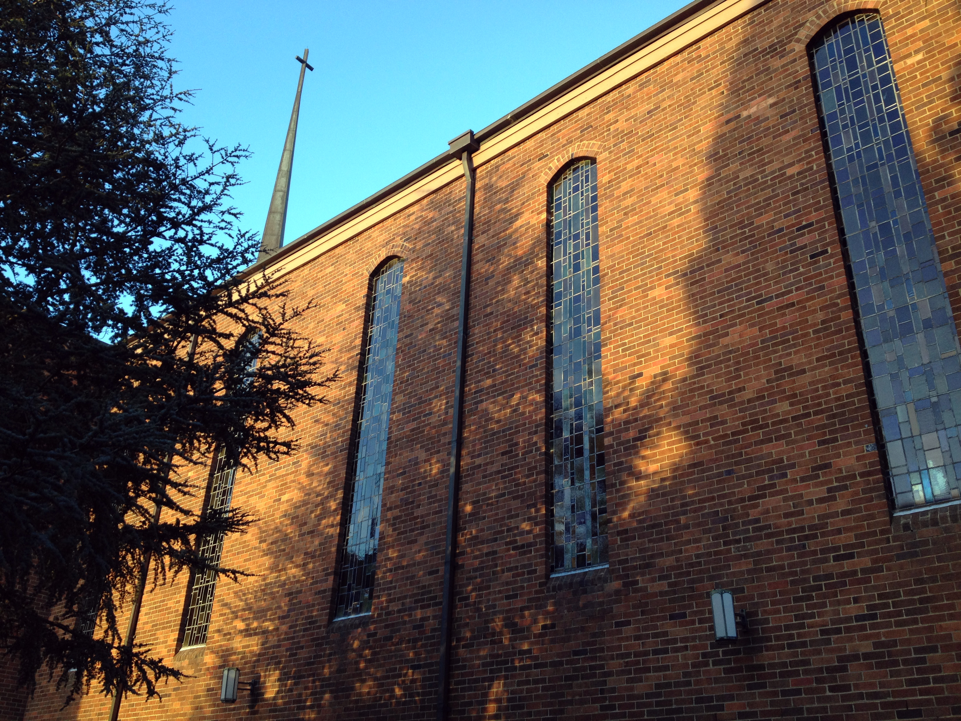 St Andrew's Church, Brighton - west of 1961 nave